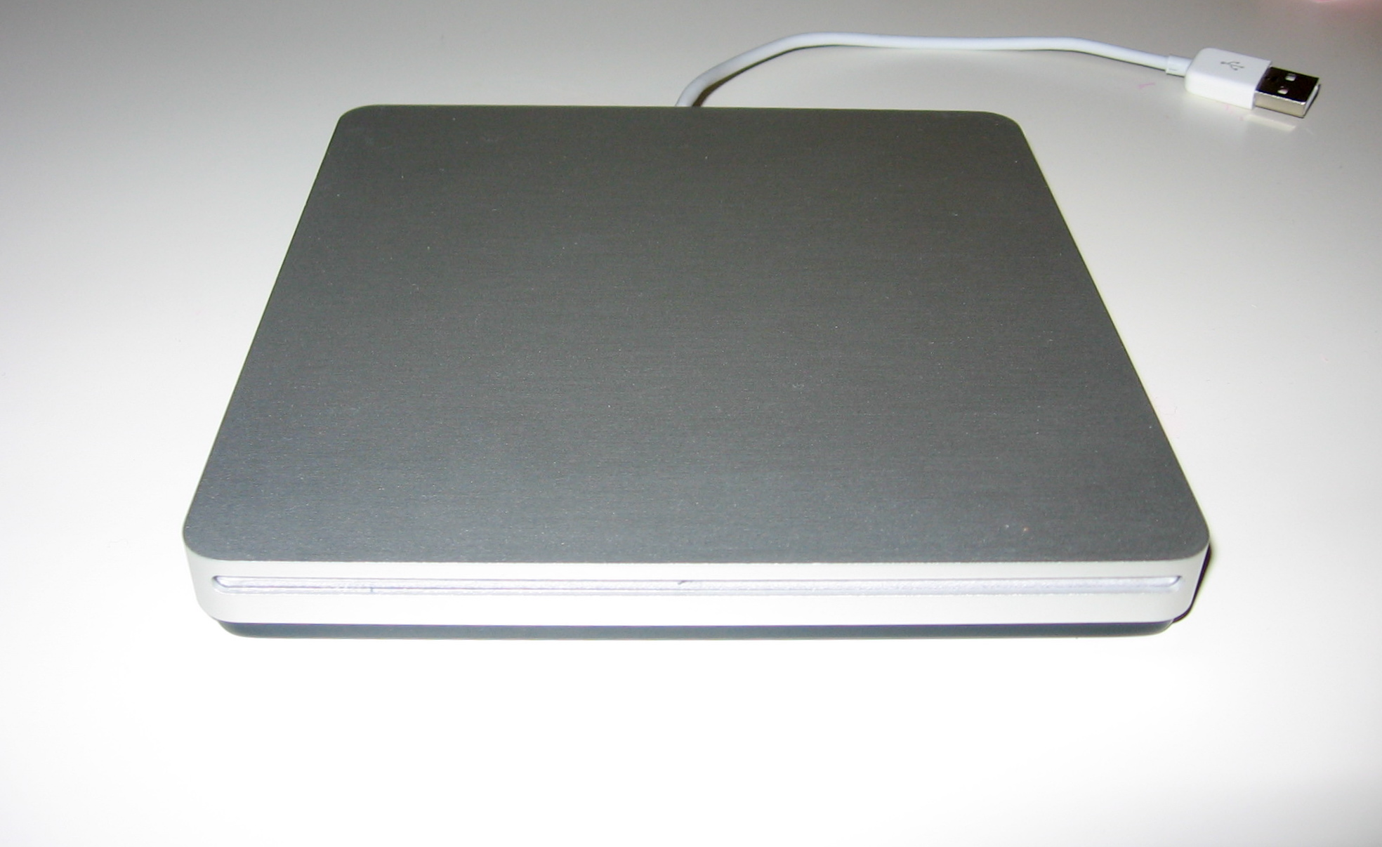 The new Apple MacBook Air SuperDrive - Slot-loading 8x SuperDrive, as seen at MacWorld, 2008.